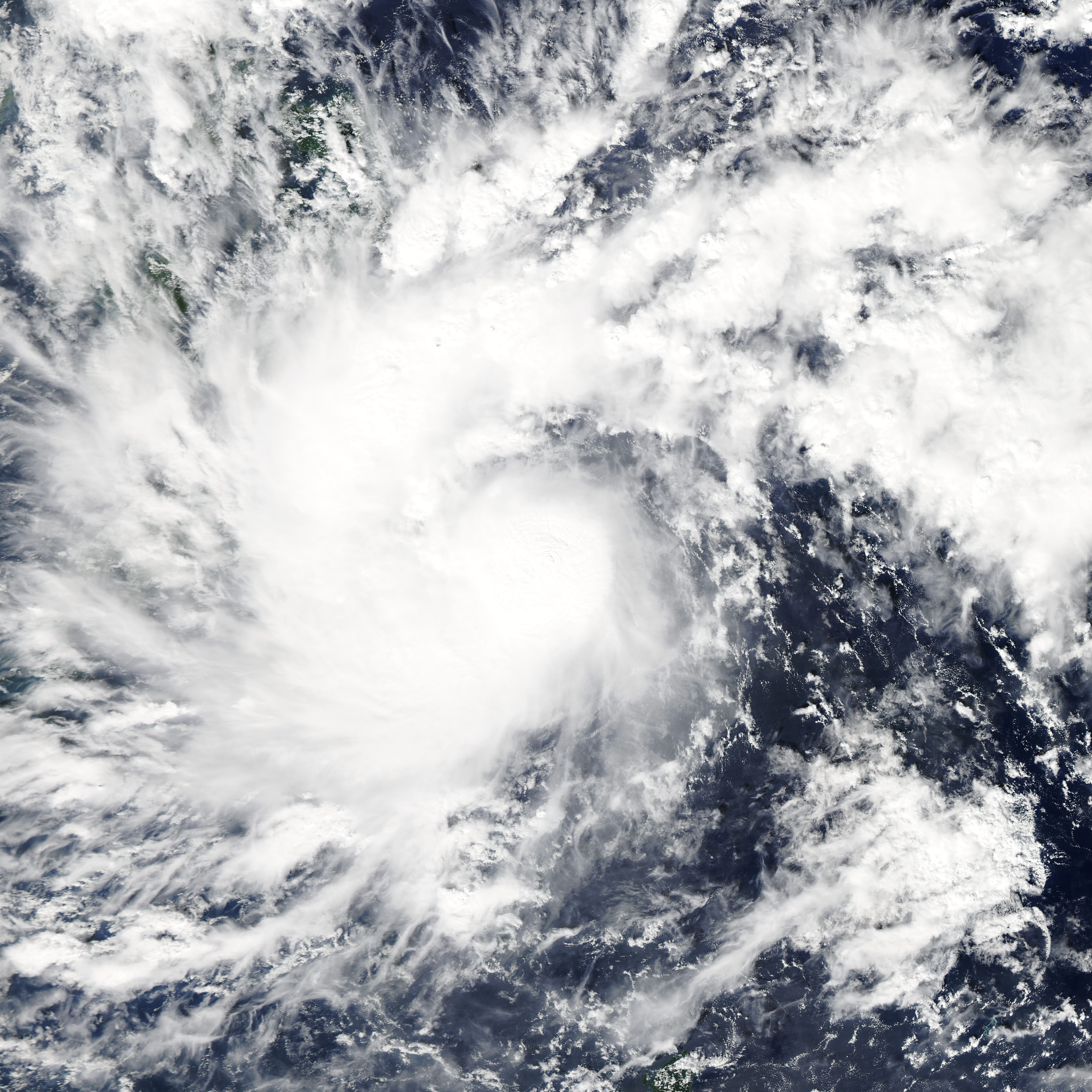 Tropical Storm Washi (Sendong) over Mindanao on December 16, 2011, several hours before making landfall.